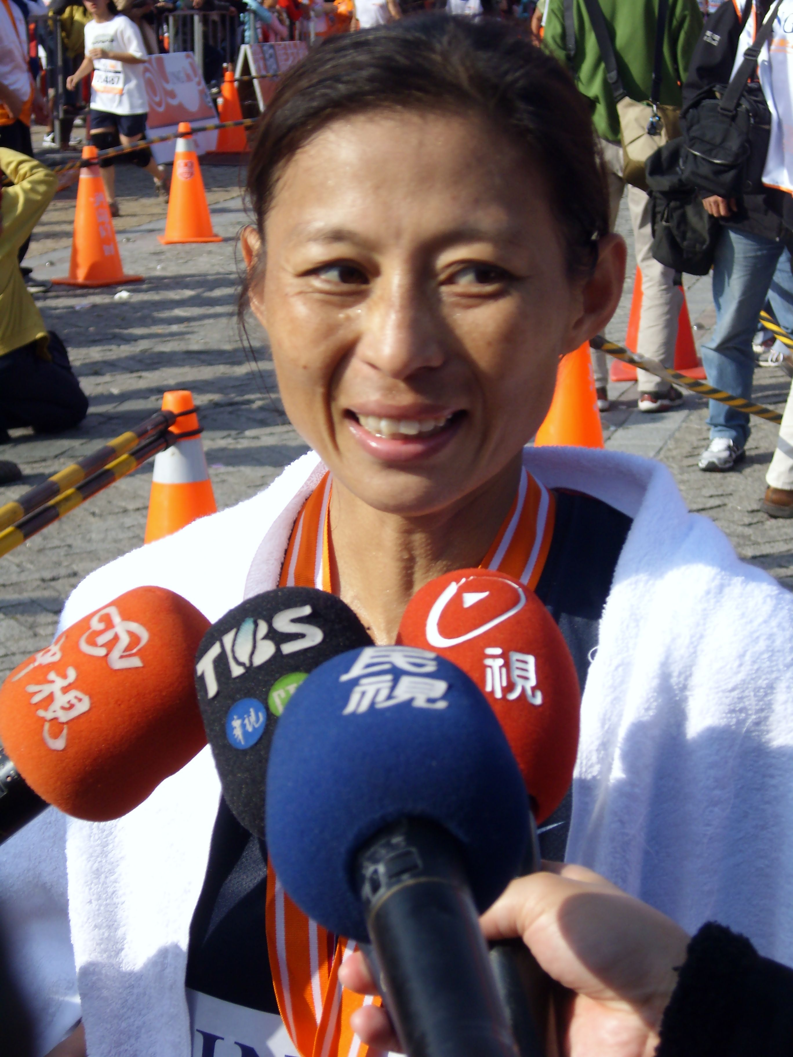 2007 ING Taipei Marathon: Yu-fang Hsu, Taiwan's Women Champion of 42K class.